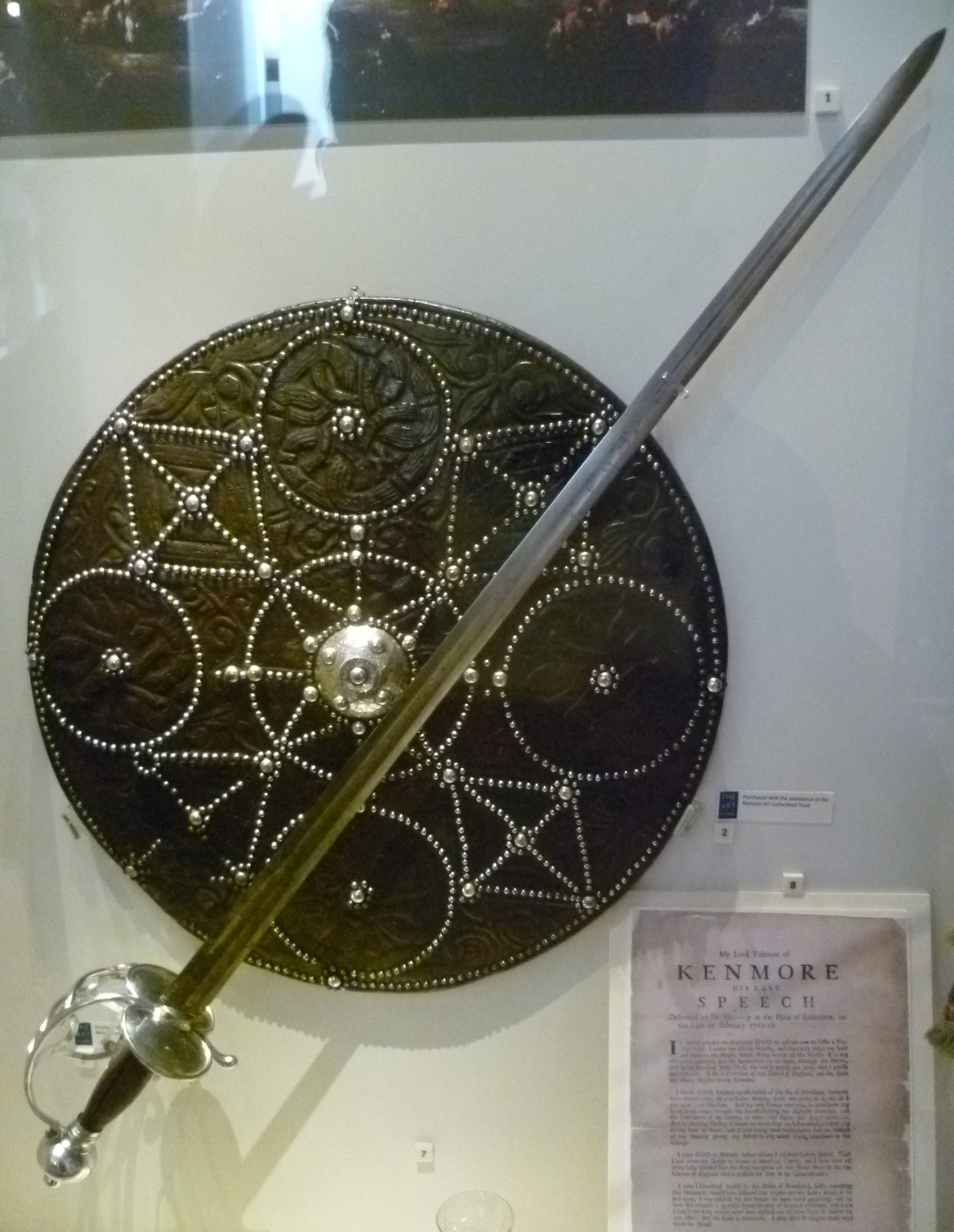 Both date from the Jacobite Rising of 1715. The targe is believed to have been carried by the Marquis of Huntly at the Battle of Sheriffmuir. Exhibits in the National Museum of Scotland, Edinburgh.